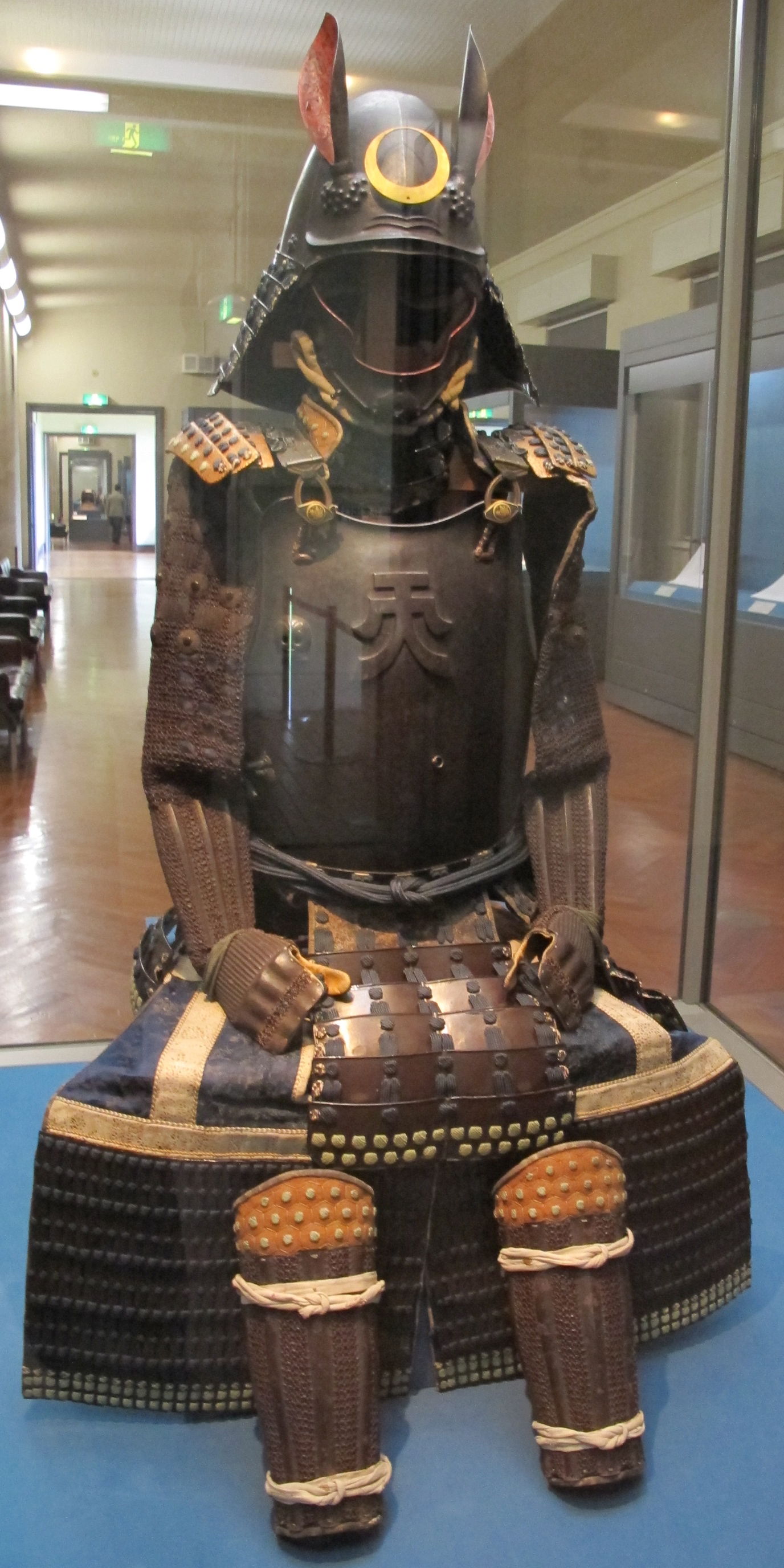 see filename (The armour of Akechi Mitsuhide, Momoyama period, 16th century,Tokyo National Museum.)